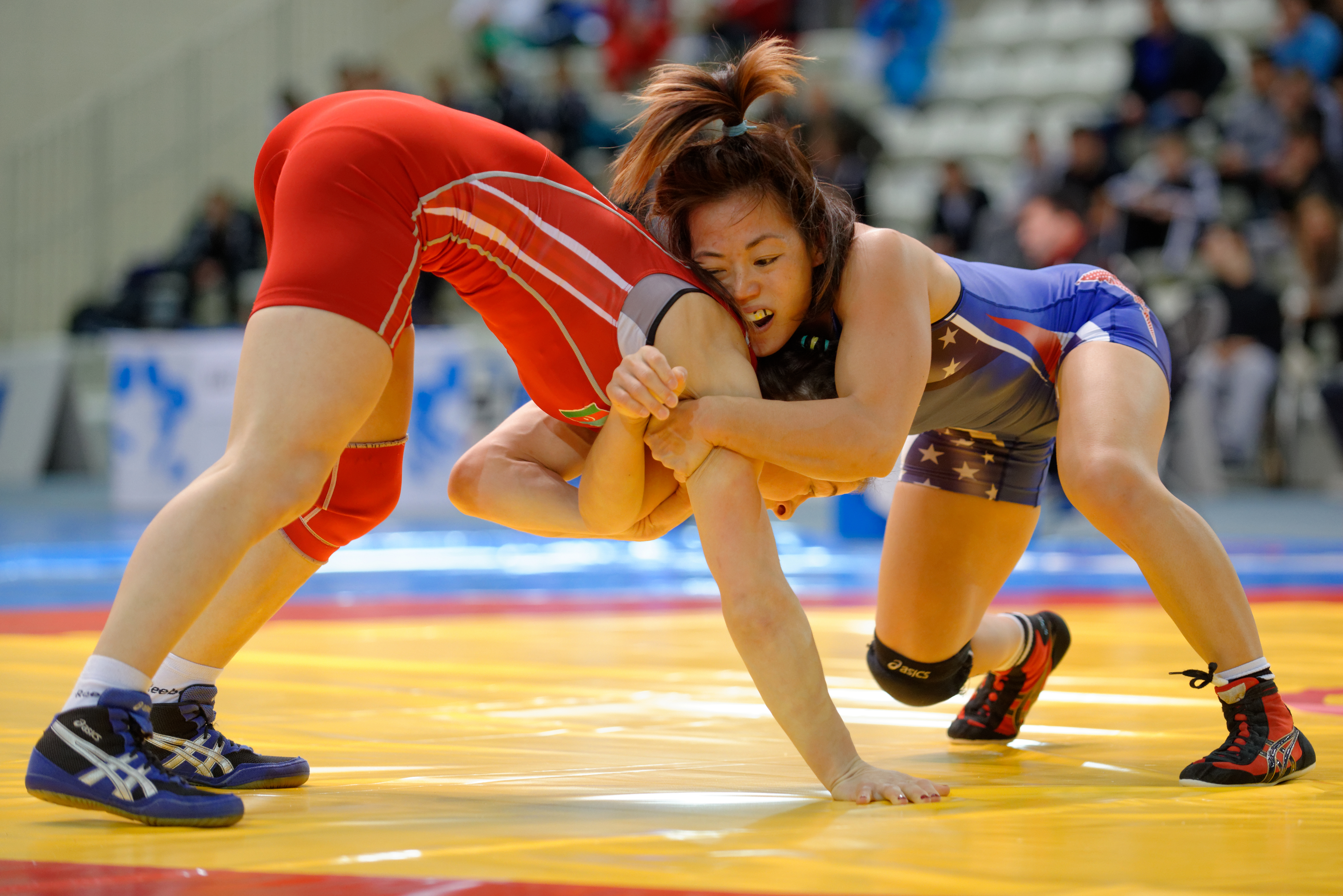 Azerbaijan's Mariya Stadnik (red) wrestles Clarissa Chun of the United States (blue) during their female wrestling 48 kg qualification match at the Golden Grand Prix of Paris on 8 February 2014.